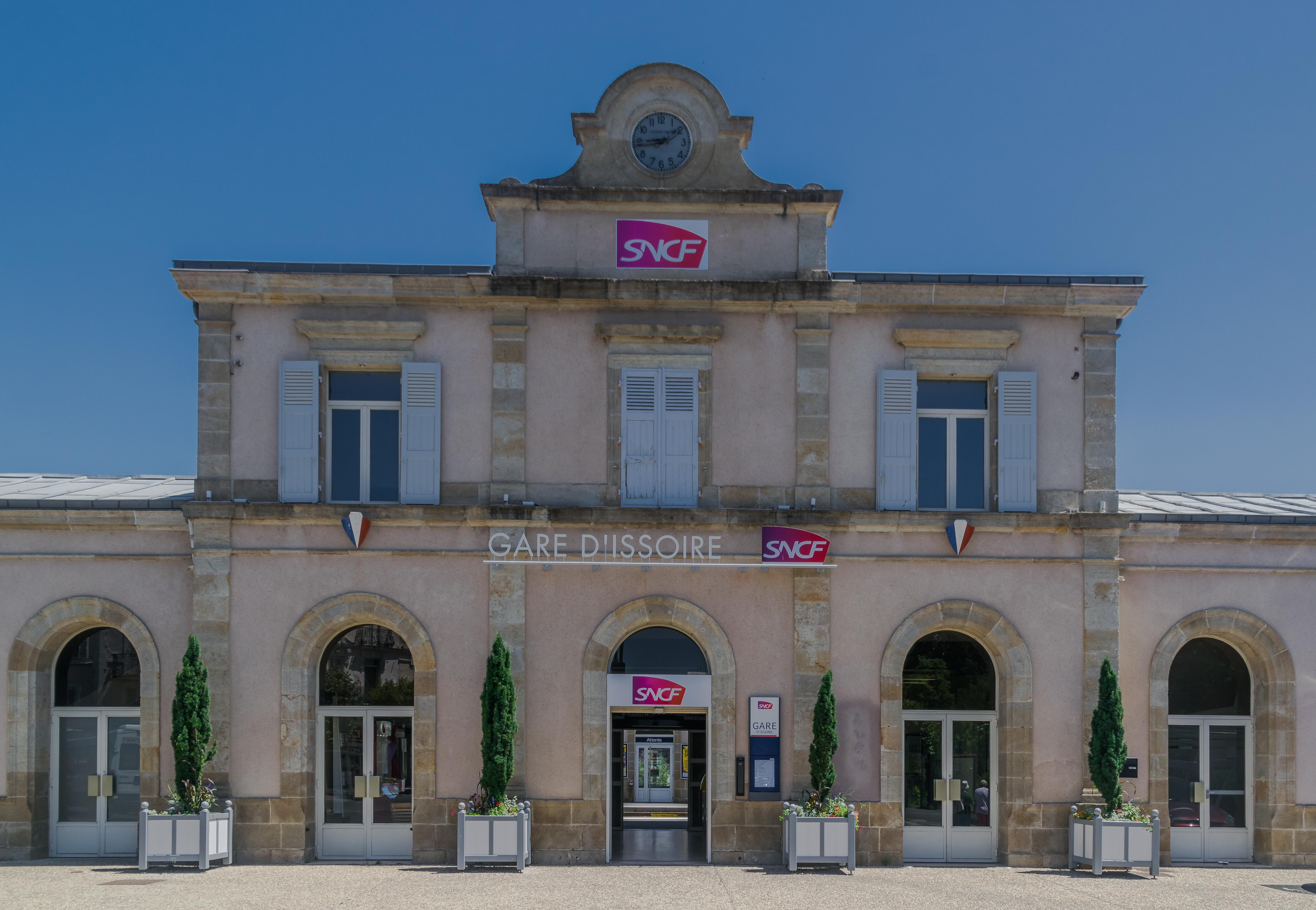 Gare d'Issoire, Puy-de-Dôme, France